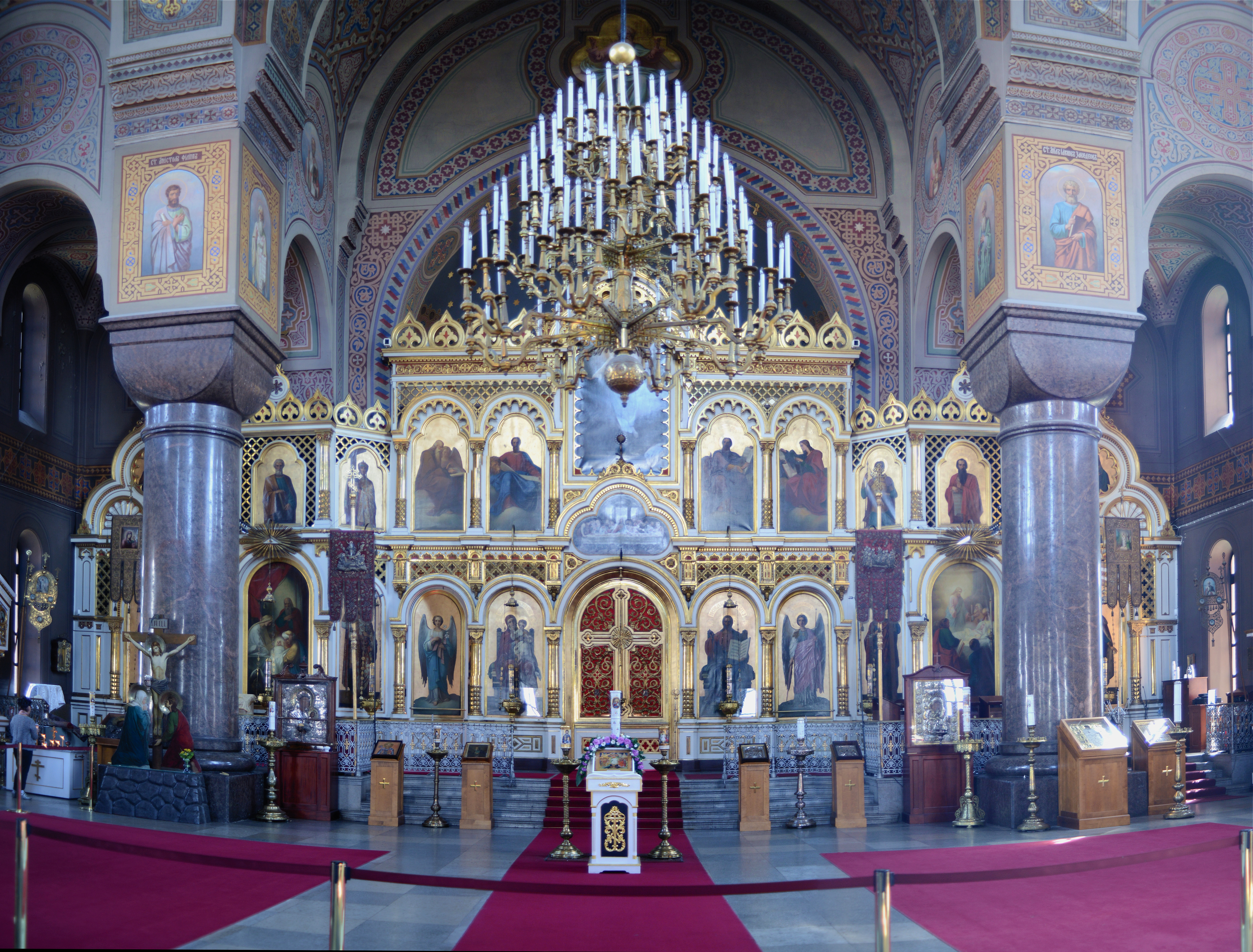 The Iconostasis of Uspenski Cathedral, Helsinki, Finland